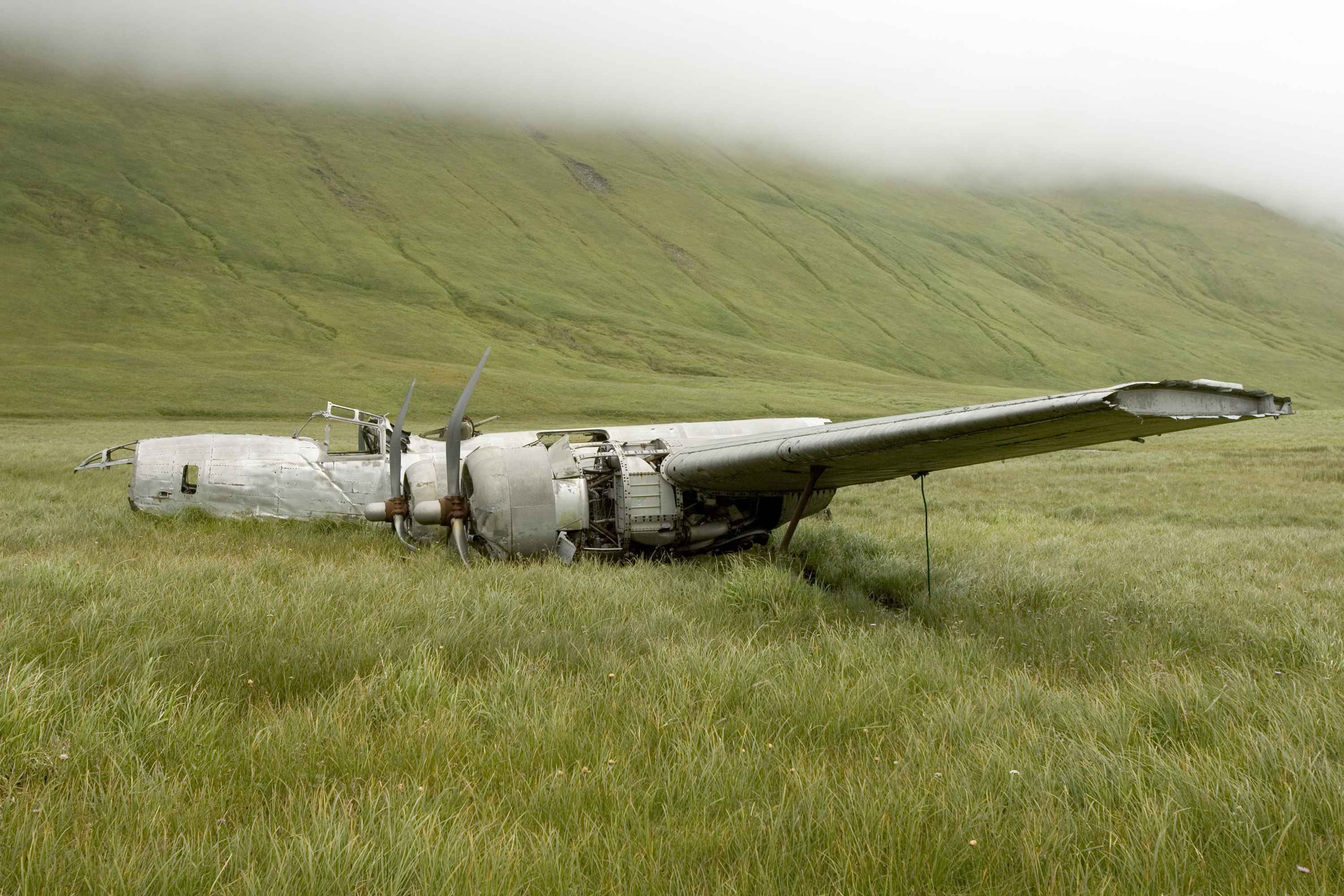 Image title: World war 2 plane wreckage Image from Public domain images website